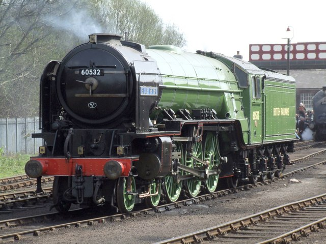 Roundhouse, Barrow Hill Class A2 'Peppercorn' 60532 is the sole survivor of fifteen that were built during 1947-1948. The locomotive was withdrawn in 1966. After undergoing restoration twice, the last being in 1991, it suffered severe damage when the driving motion disintegrated during an uncontrolled wheel slip, three years later. It was back to mainline running by 1996, but is now due for restoration once again.